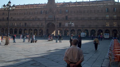 Illustration of an image with an aspect ratio of 16:9 (1:1.77) and equal diagonal to the 4:3 picture, and same view size.